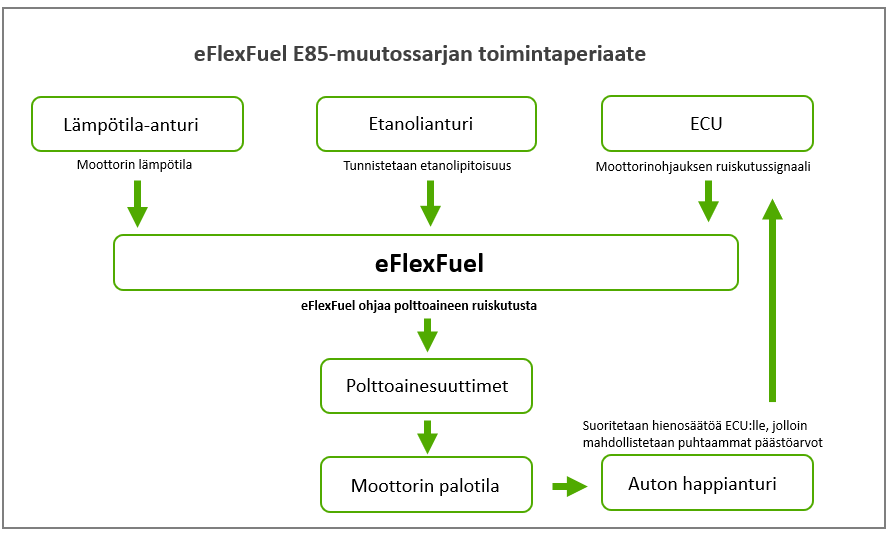 The diagram of the eFlexfuel device functions.